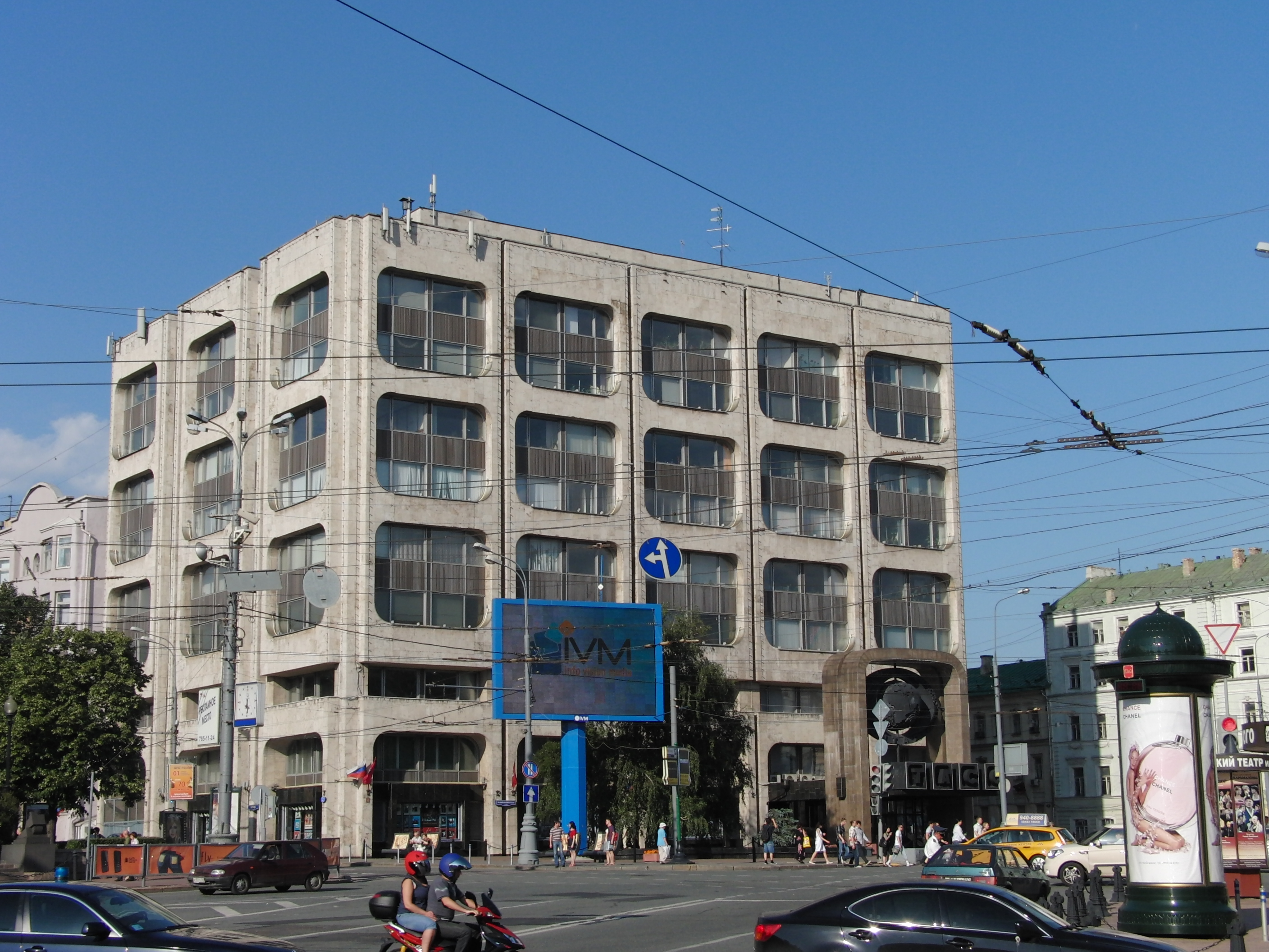 TASS headquarters in Moscow